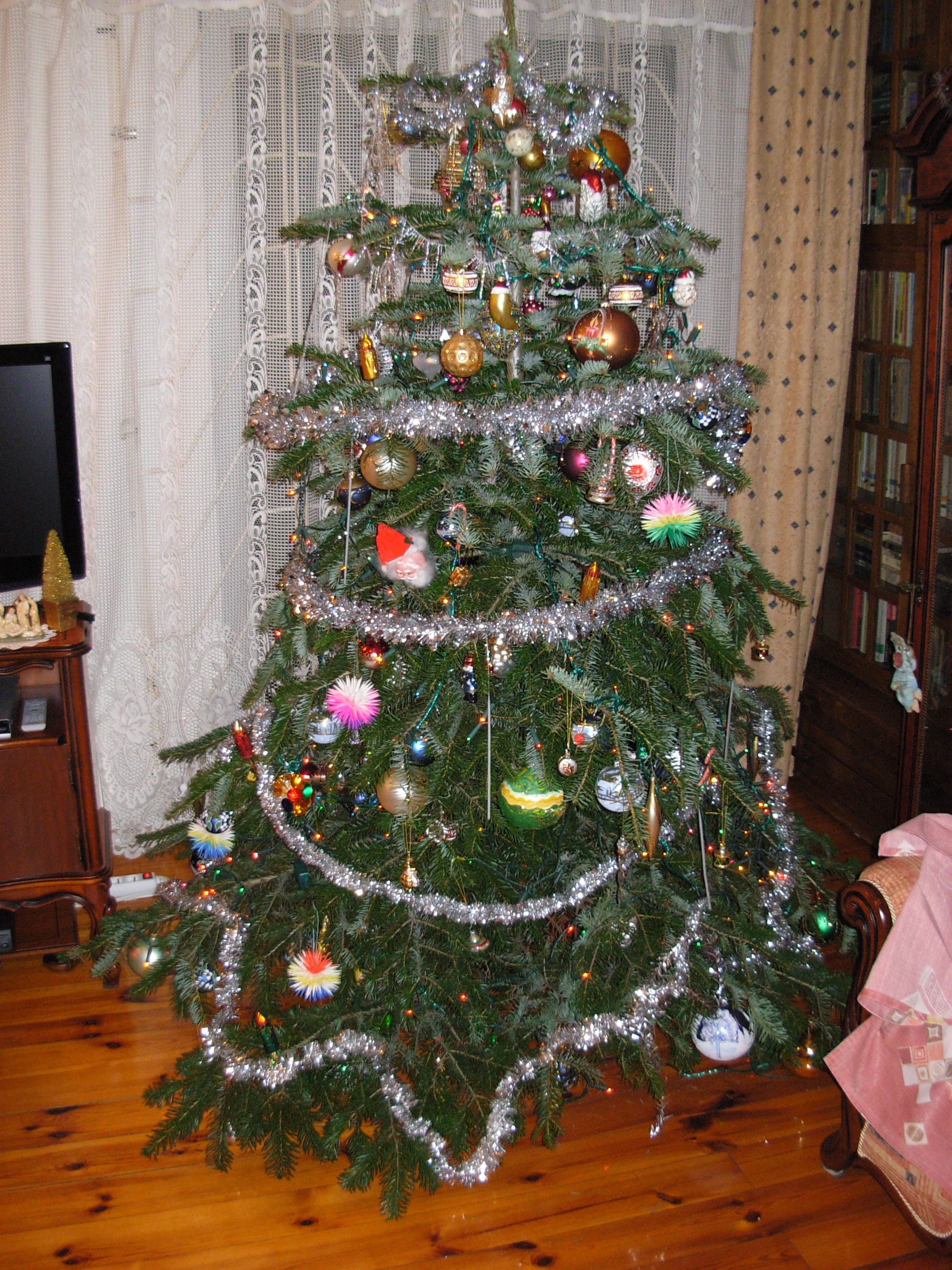 Source: Photo by myself.